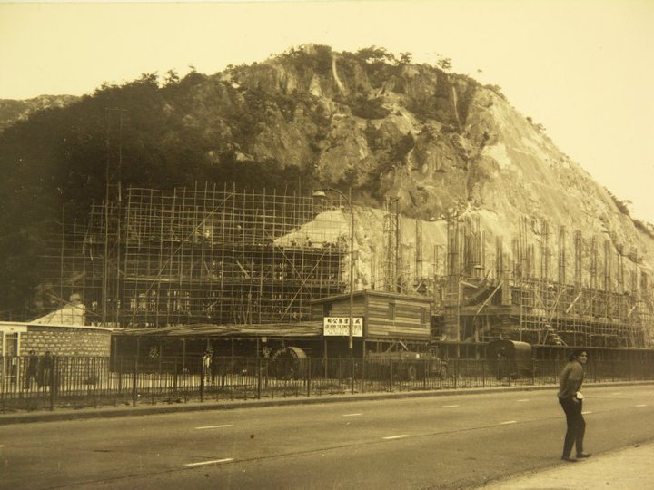 SJACS Old Campus Under Construction 中文（香港）: 聖若瑟英文中學興建中觀塘道前校舍